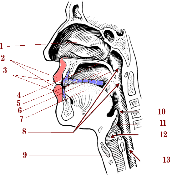 Head & neck. Mouth, larynx, tongue, teeth, epiglottis, pharynx... nose lips teeth palate hard palate soft palate tongue pharynx larynx epiglottis en: en: vocal folds esophagus Diagram via file:pharynx_(PSF).png